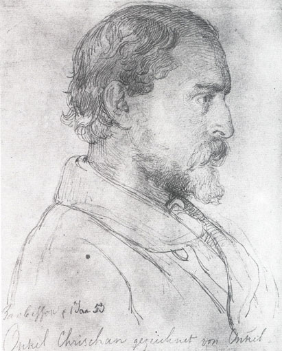 Lorenz Frøhlich (1820–1908), Portrait of C.C. Magnussen, drawing on paper, 1853